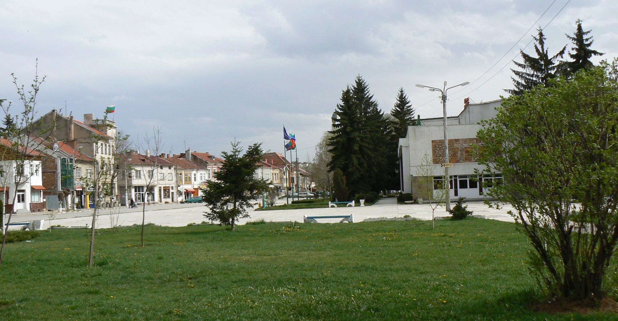 The central square of Ihtiman, Bulgaria